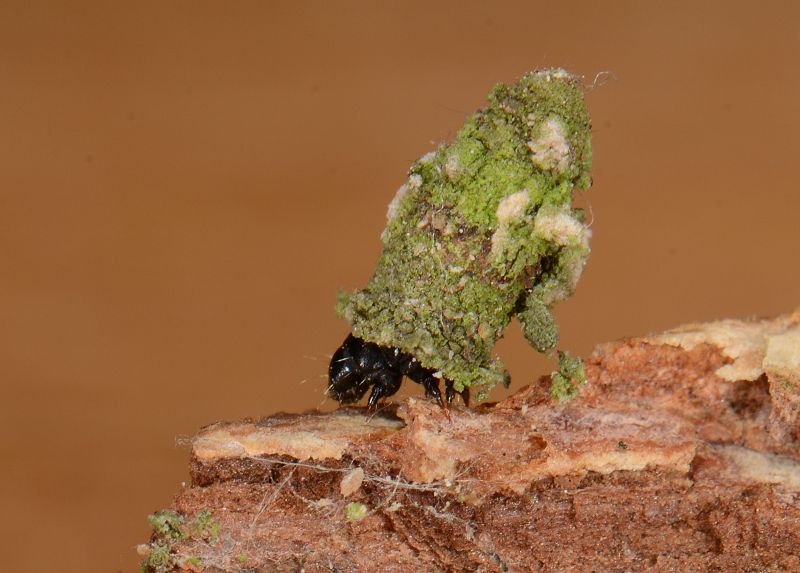 Bacotia claustrella larva in case. Location: The Netherlands - Panheel - Leerke Ven e.o.